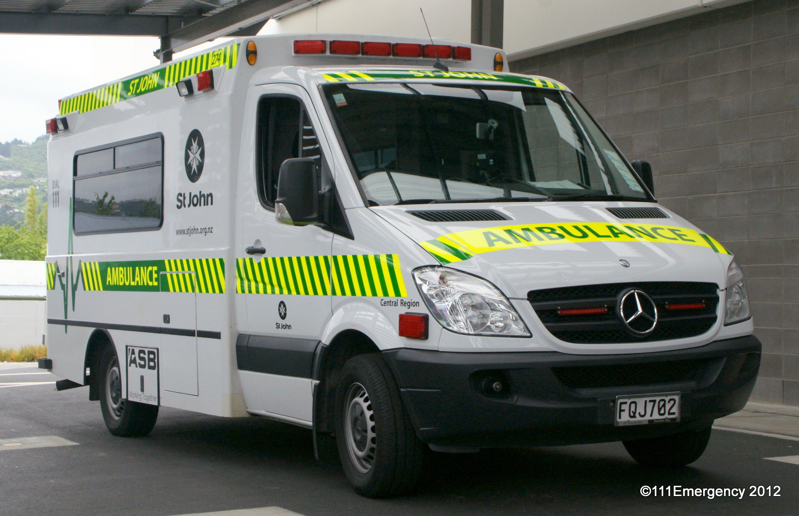 St John Ambulance 274